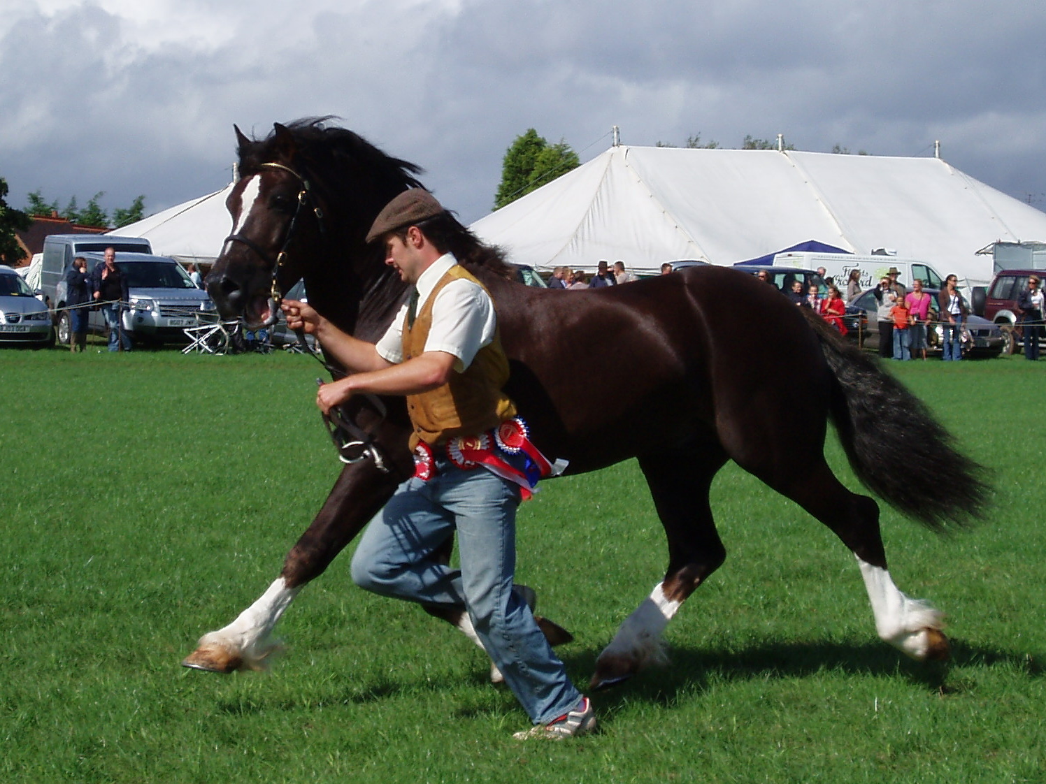 The Great British Agricultural Show. Fillongley 2008 Welsh Cob